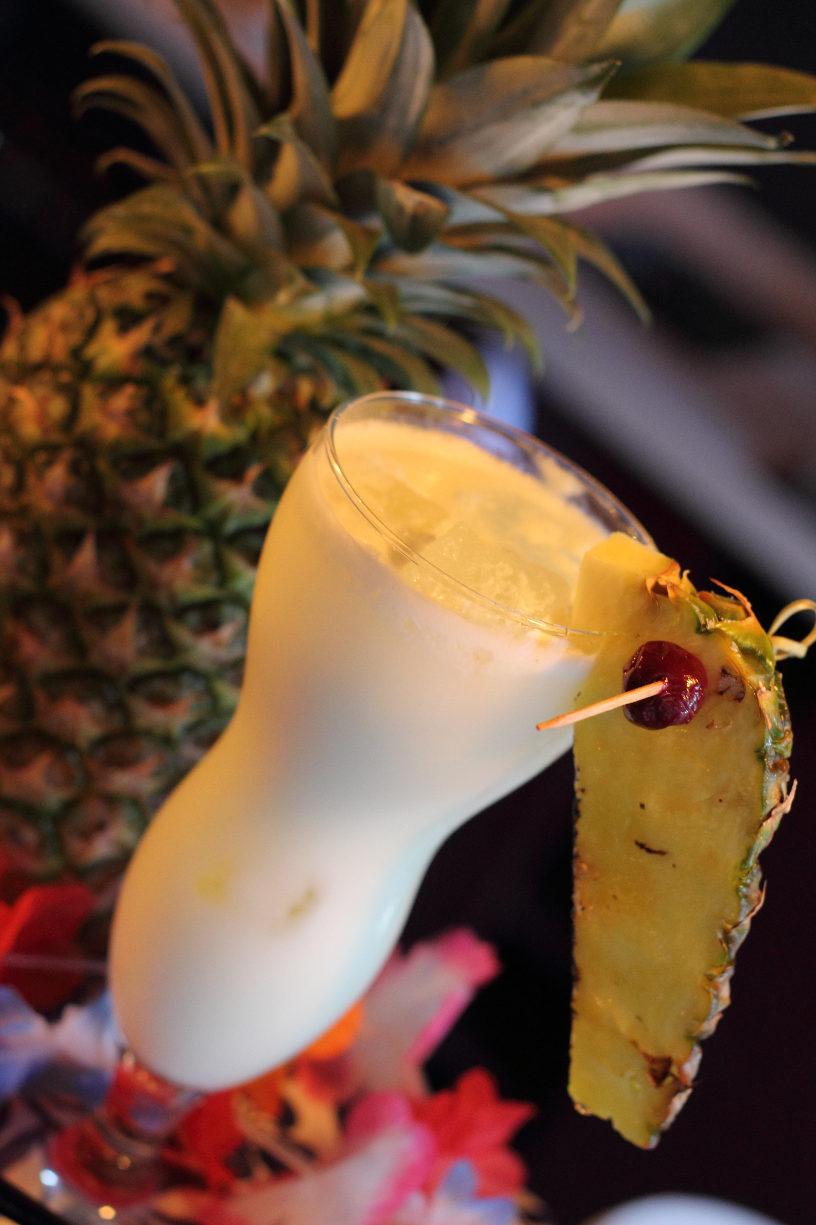 Pina Colada from top, garnished with caramelized pineapple and a cocktail cherry.